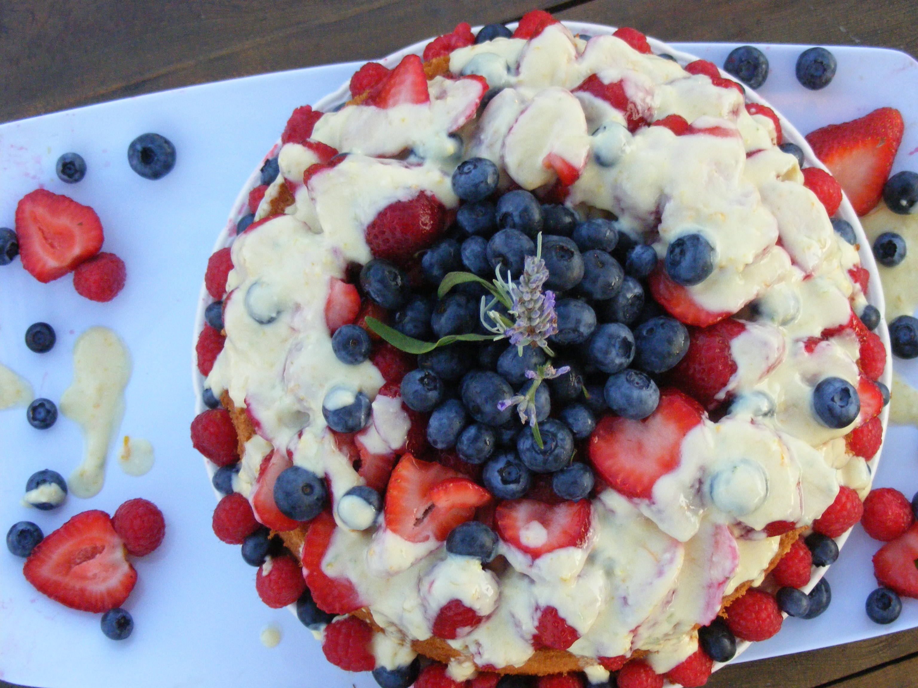 Angel food cake with berries. Birthday cake